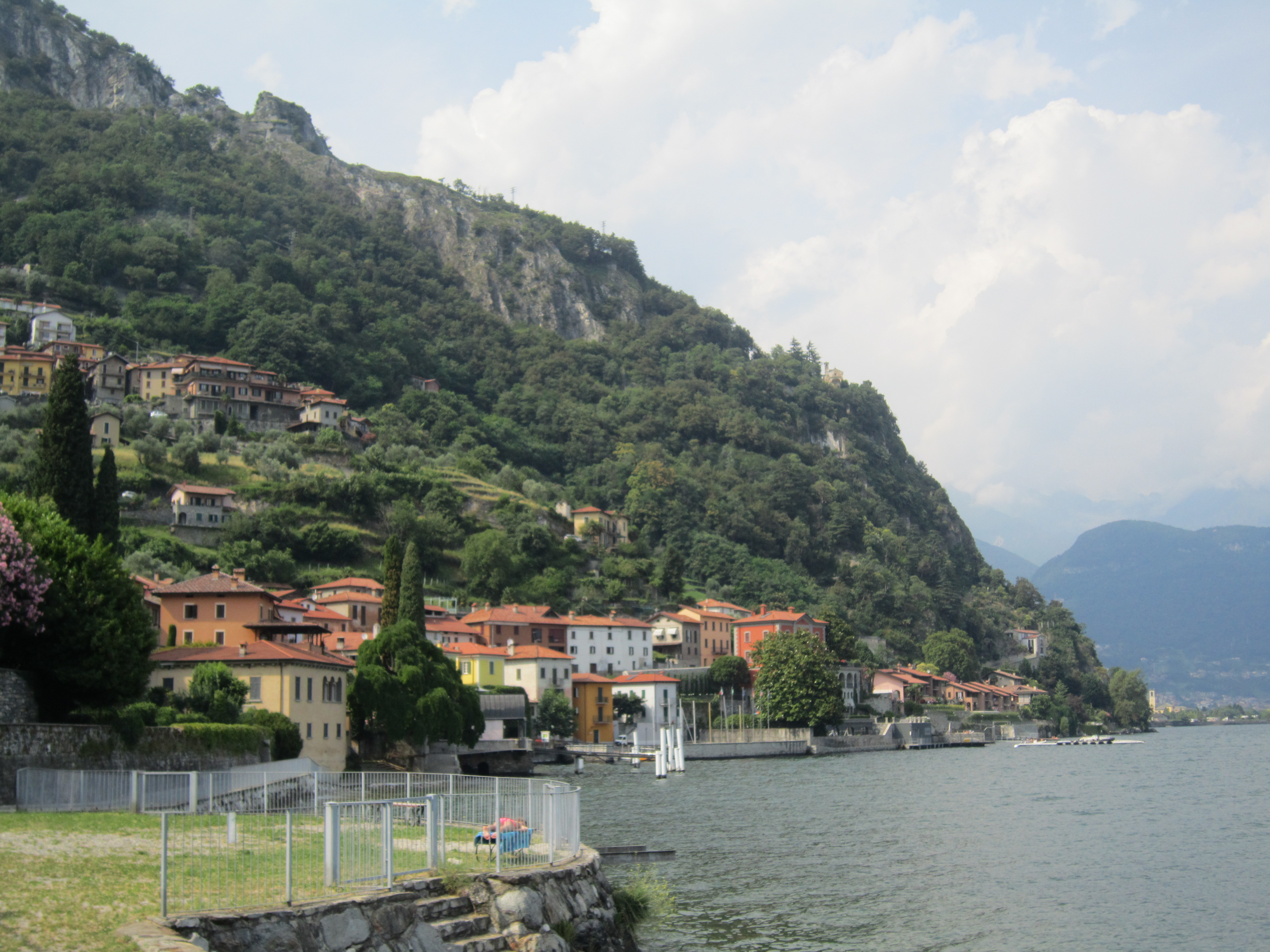 View along the bank of Lake Como in Musso in northeastern direction